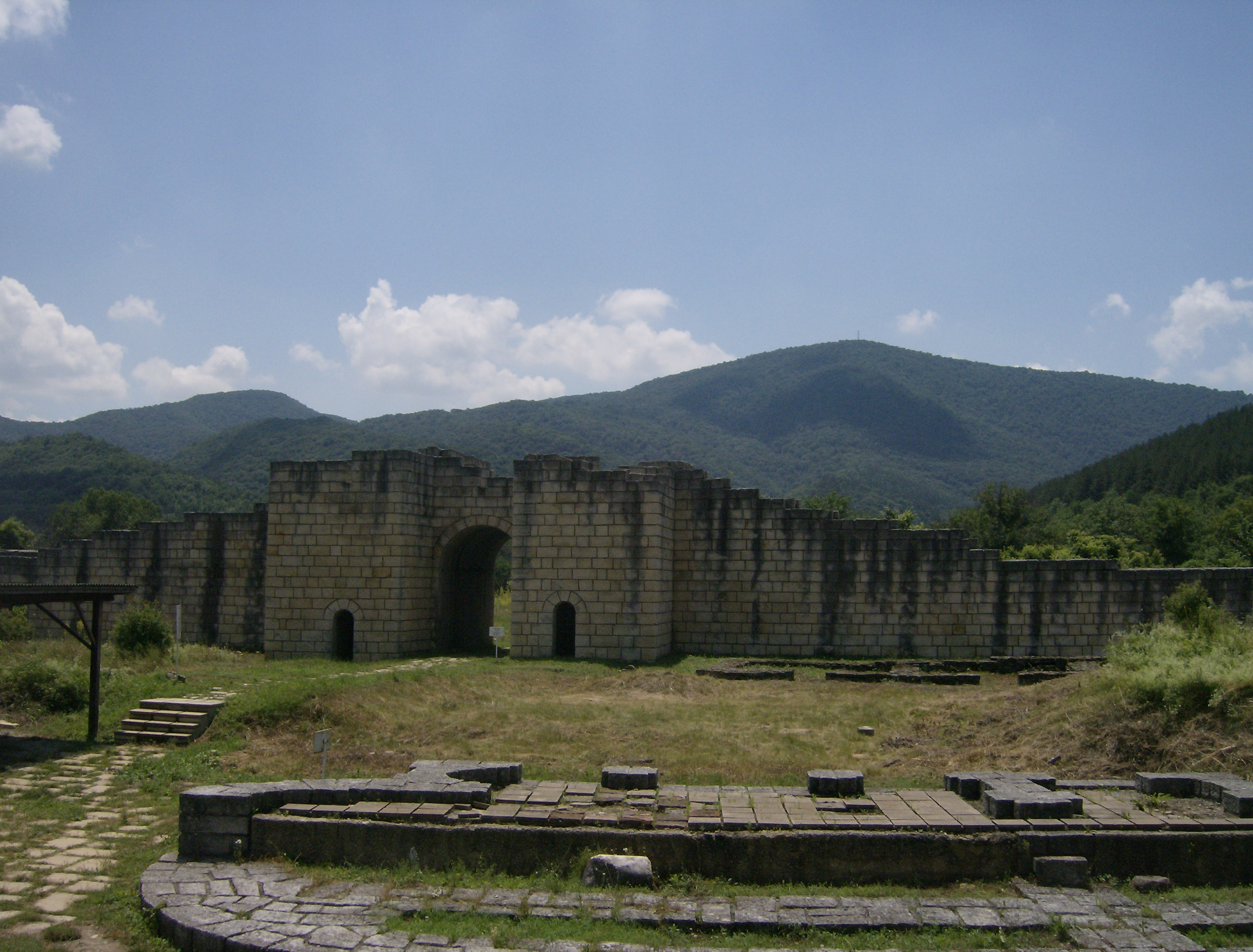 Preslav Fortress